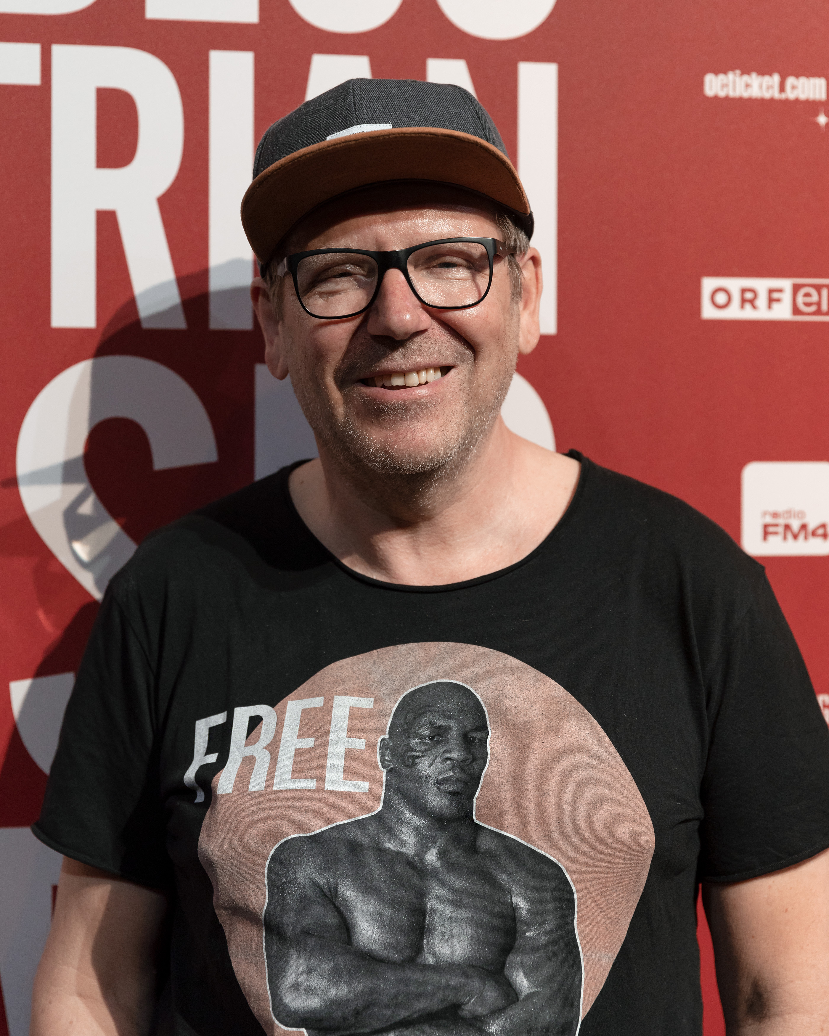 Eberhard Forcher at the Amadeus Austrian Music Award 2019 at Volkstheater in Vienna.